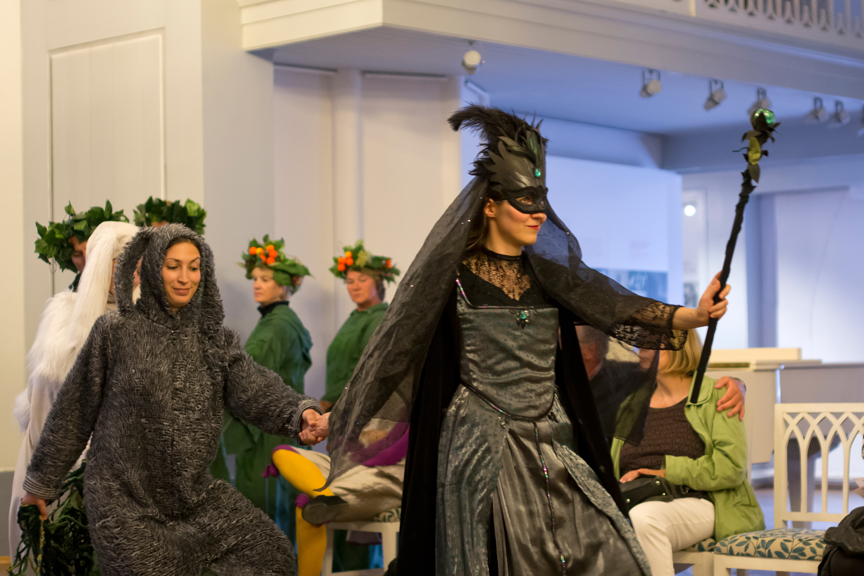 Moments from the performance "Orlando furioso" of the early dance ensemble Saltatriculi, August 16th 2015.